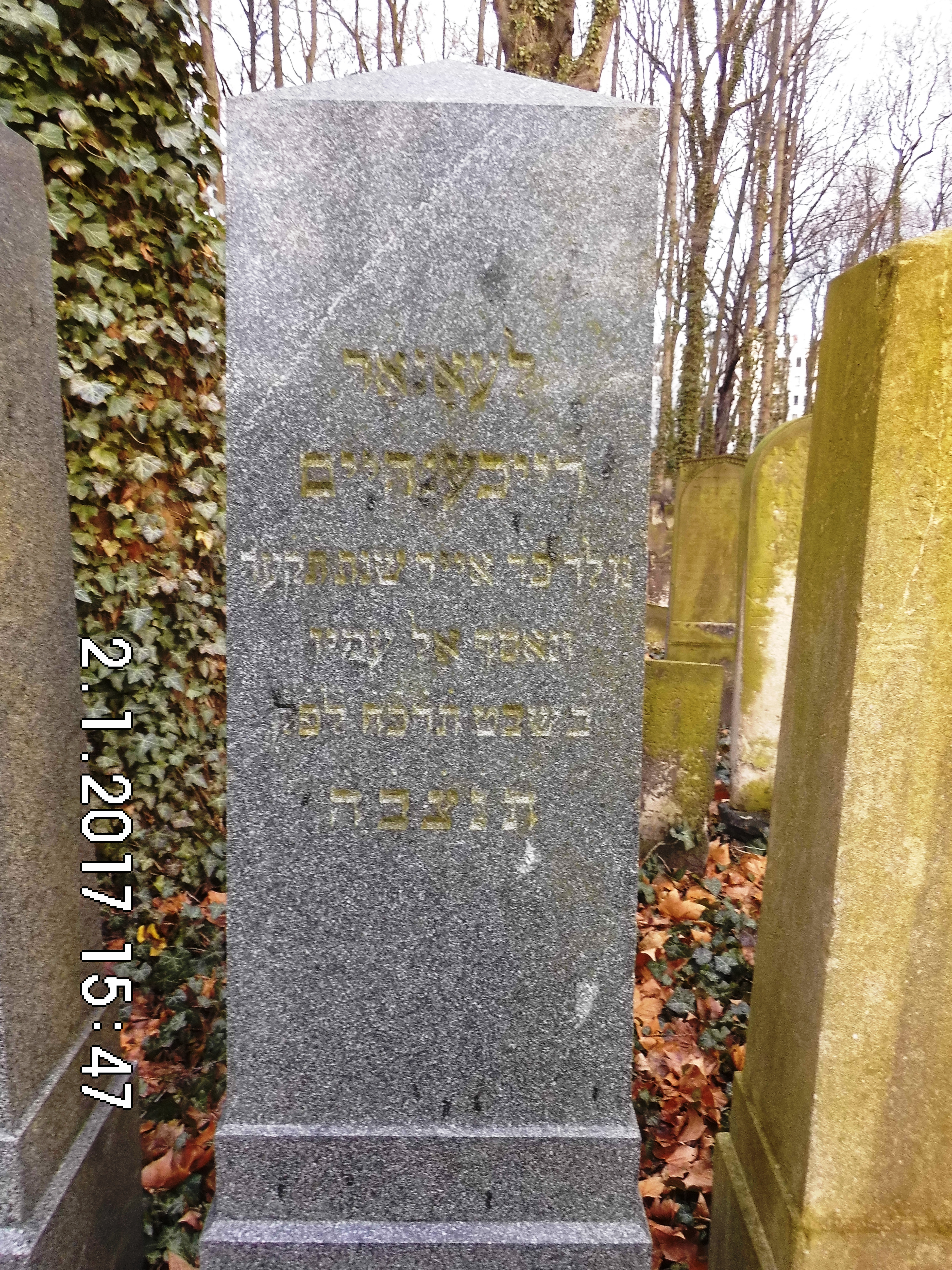 Matzevah of Leonor Reichenheim on the Schönhauser Allee Cemetery, Berlin